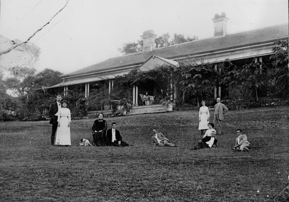 Wilson family members on the lawn at Claremont, Milford Street, Ipswich, 1912 From left: Mary Wilson, her future husband Bernard Smithers, Harriet Wilson (wife of the owner of Claremont John Wilson), Ivor Wilson, Cecil Wilson, John Wilson (owner) and Enid Wilson (later wife of Rev. Christopher Compton), standing at back, Gordon and Harriet Wilson, reclining) and Charles Morris. Mrs O'Connor, motron of Ipswich Girl's Grammar School and Ellis Skyring, Police Magistrate, are seated on the portico. Claremont was purchased by John Cecil Norman Wilson ca. 1903. He was a son of George Harrison Wilson, the founder of G. H. Wilson and Company, Ipswich. (See Fox, M, History of Queensland, v.1, pt. 2, p. 467). J. C. N. Wilson worked in the family business and died in 1922. On his death Claremont reverted back to the Wilson estate and cousin Sumner Wilson lived there until ca. 1935. (Description supplied with photograph).